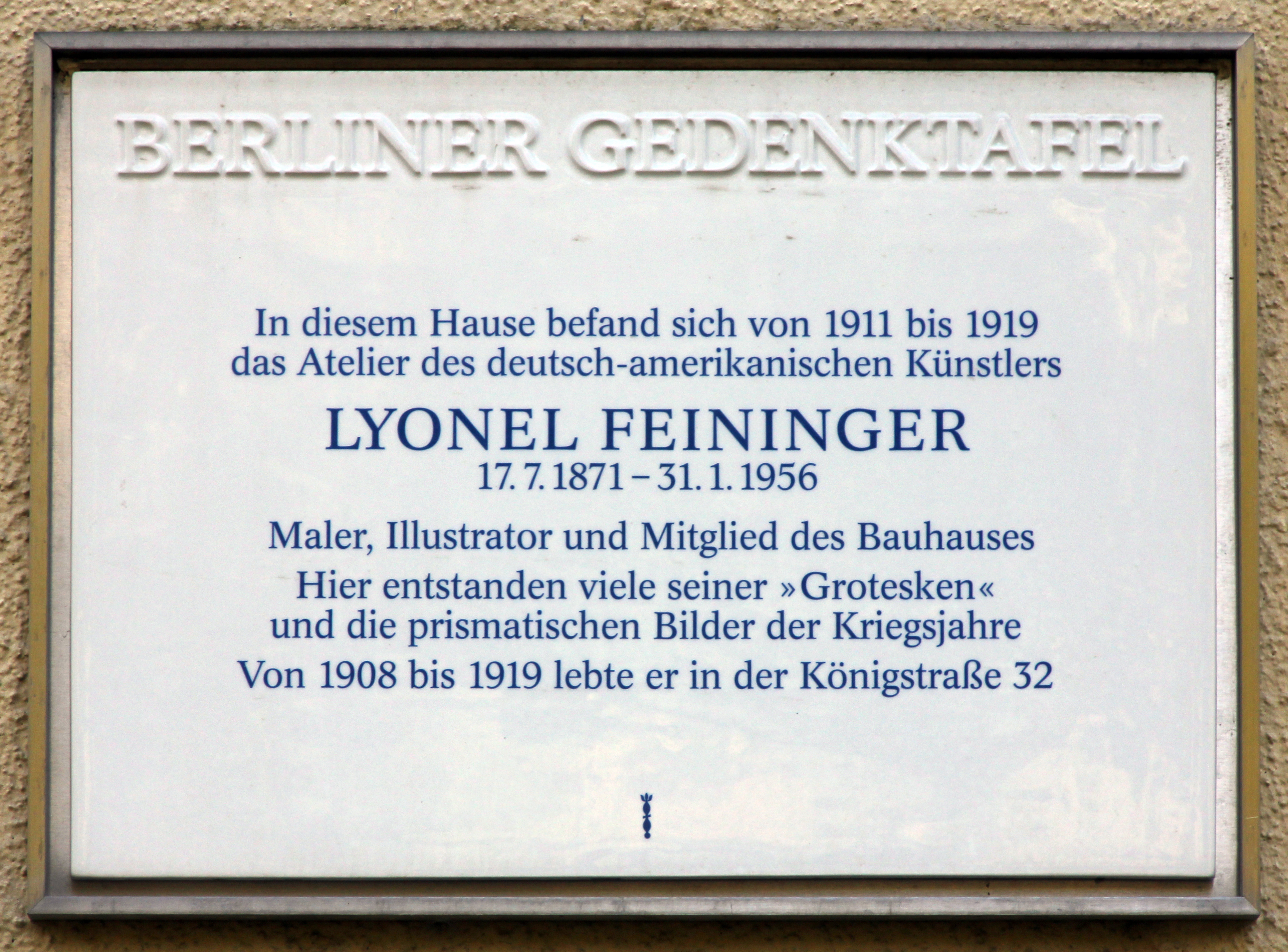 Berlin memorial plaque, Lyonel Feininger, Potsdamer Straße 29, Berlin-Zehlendorf, Germany